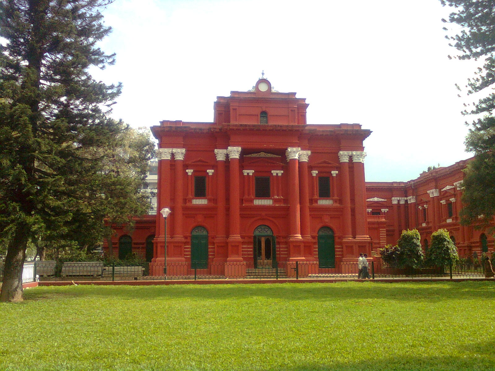 Government Museum Banglore